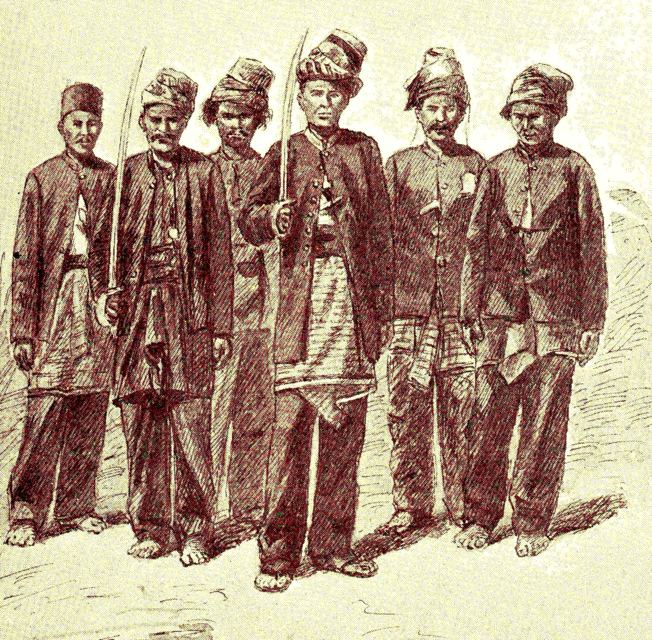 Teuku Umar and his followers